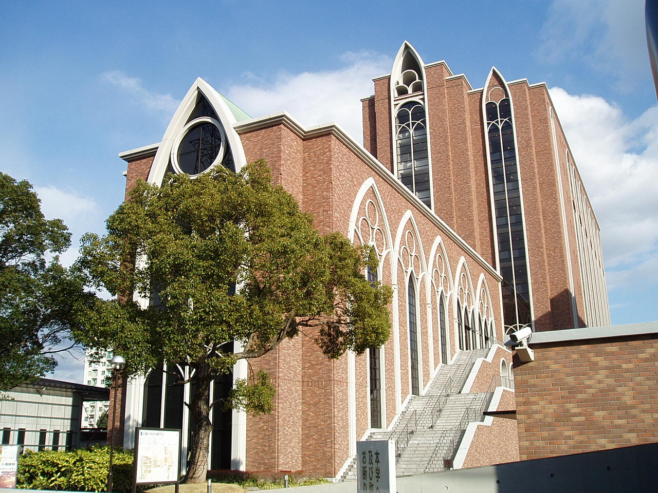 Bldg. "B" (Law School & Faculty of Economics) in the main campus of Kinki University. Located in Higashiosaka, Osaka Prefecture, Japan.